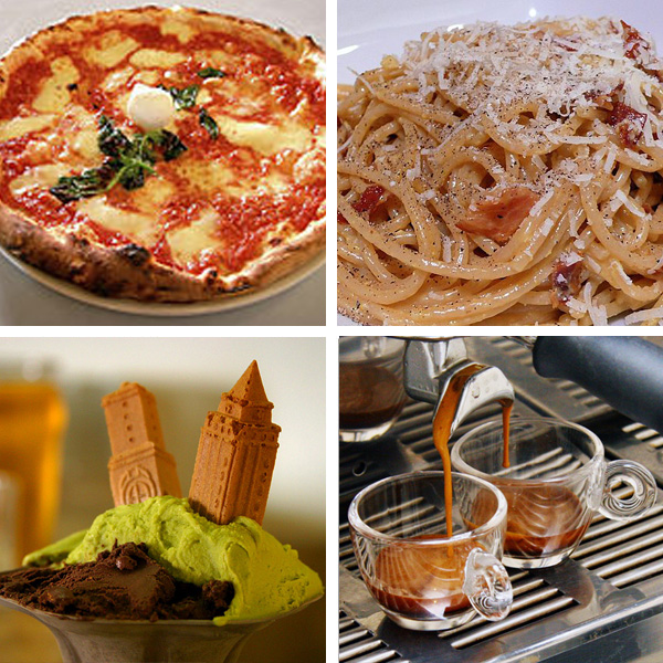 Italian food